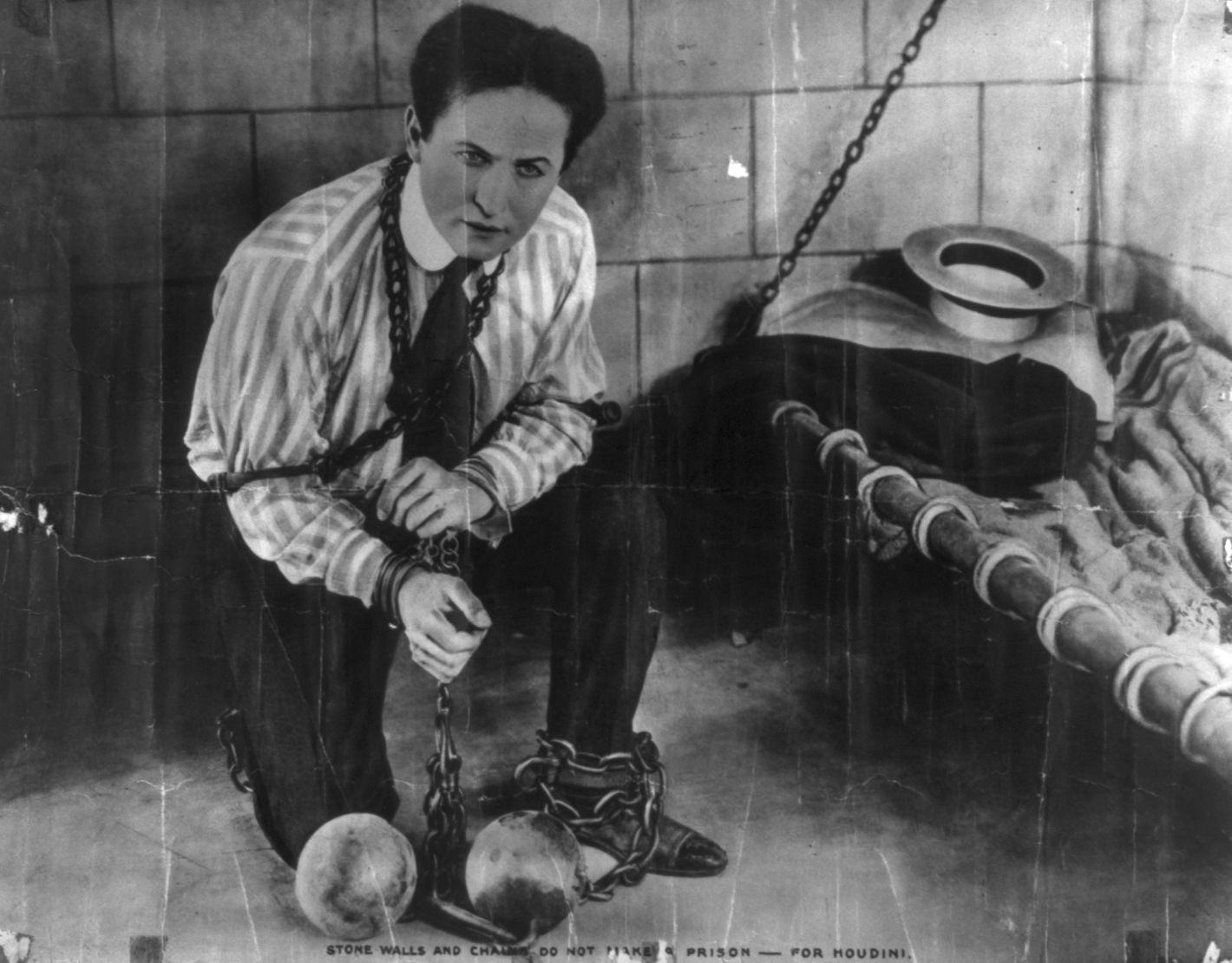 Harry Houdini (1874–1926), Stone walls and chains do not make a prison --- for Houdini